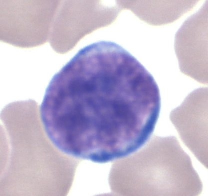 lymphocyte white blood cell